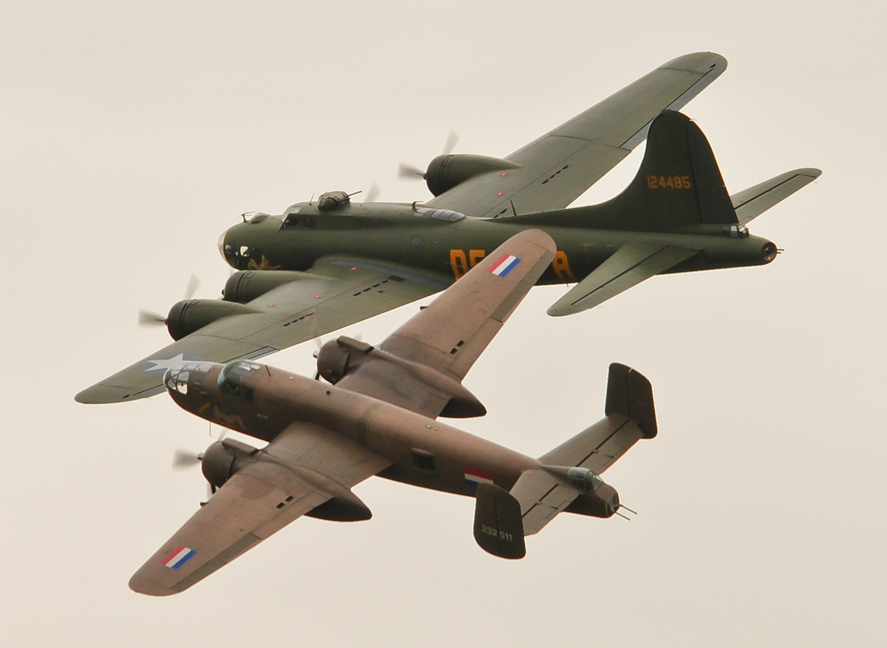 B25 Mitchell & and B17 'Sally B' taken at Shoreham Airshow 2013